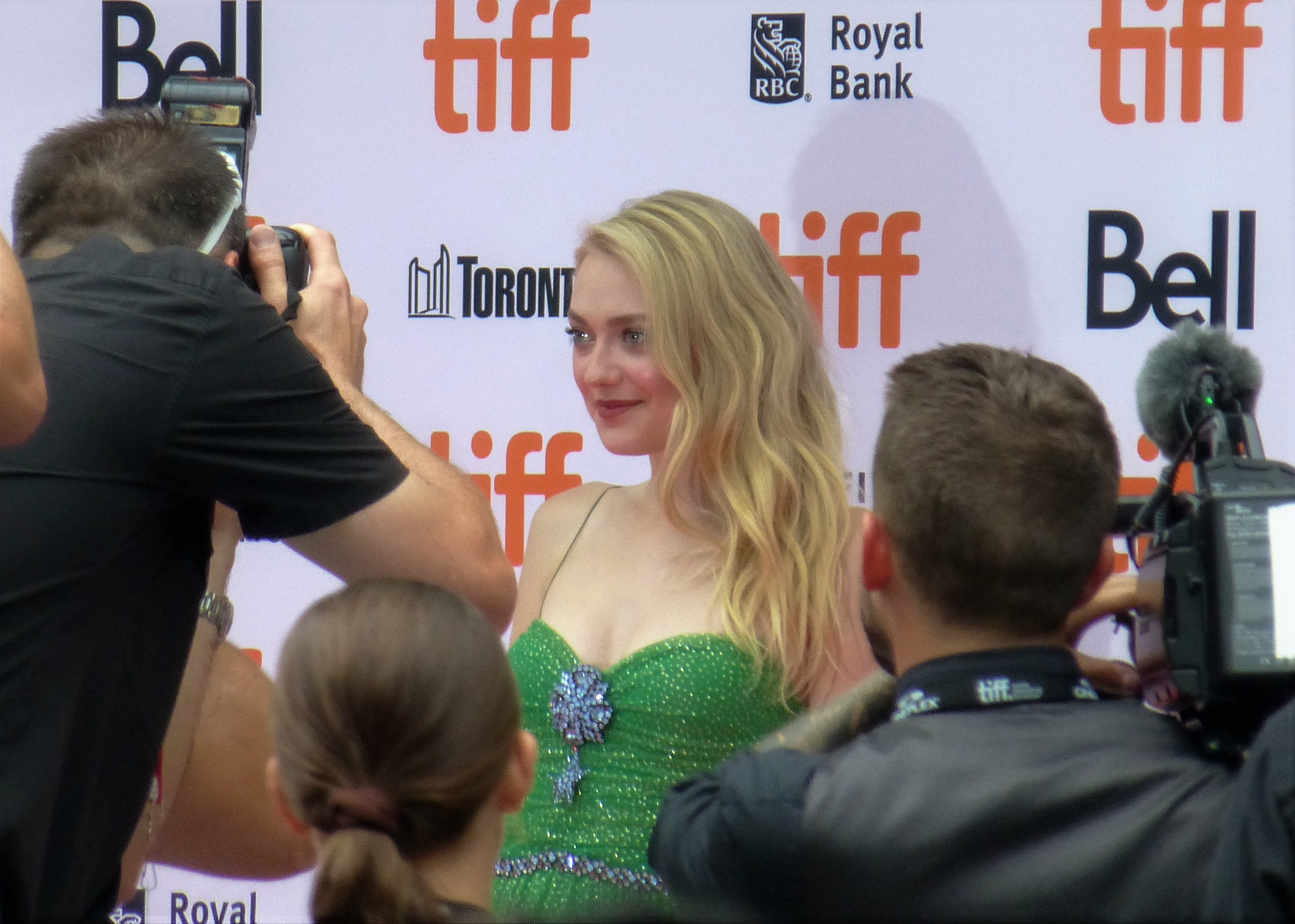 Dakota Fanning at the premiere of American Pastoral, 2016 Toronto Film Festival